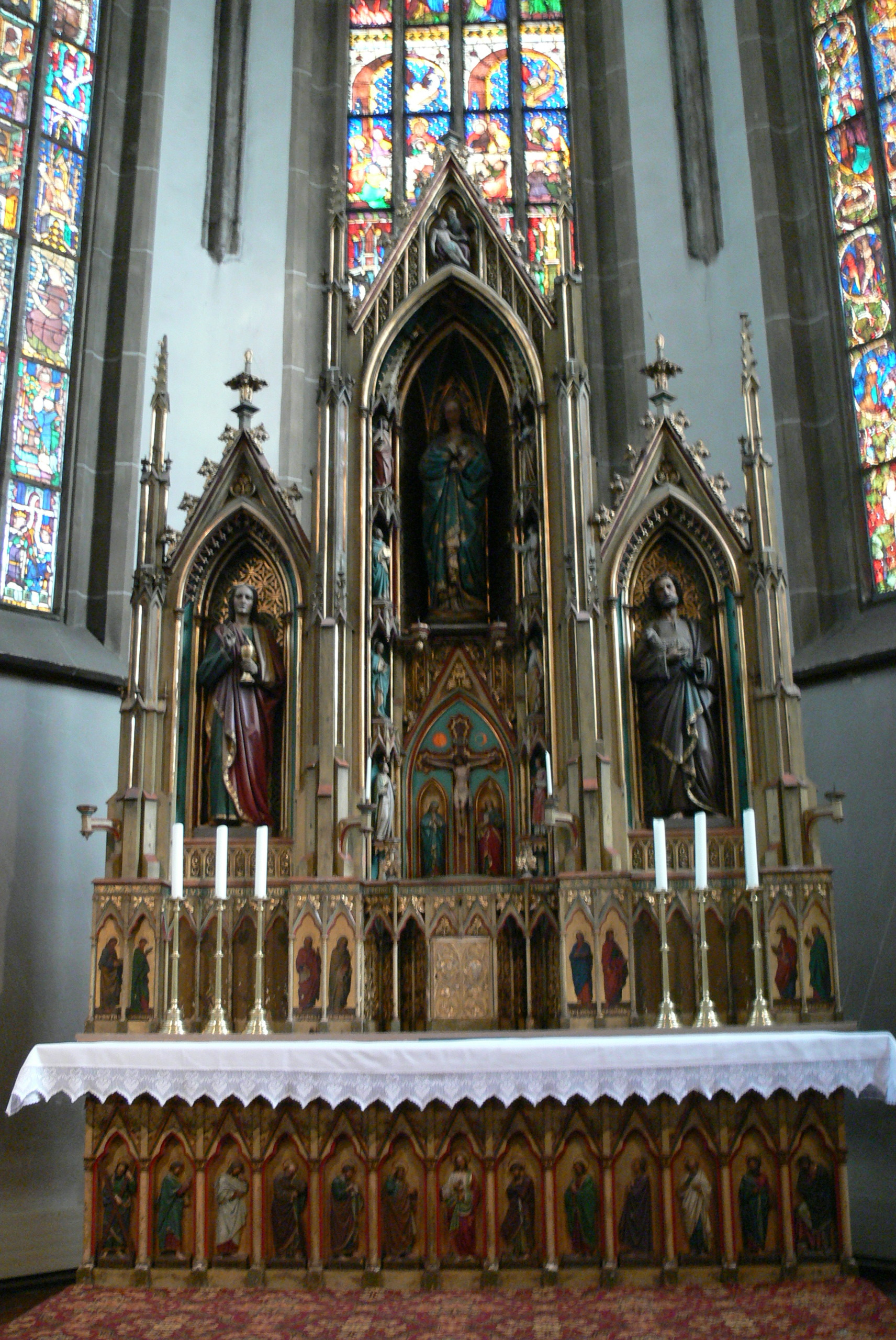 Wels (Upper Austria). City church: High altar (1856) by Michael Stolz.